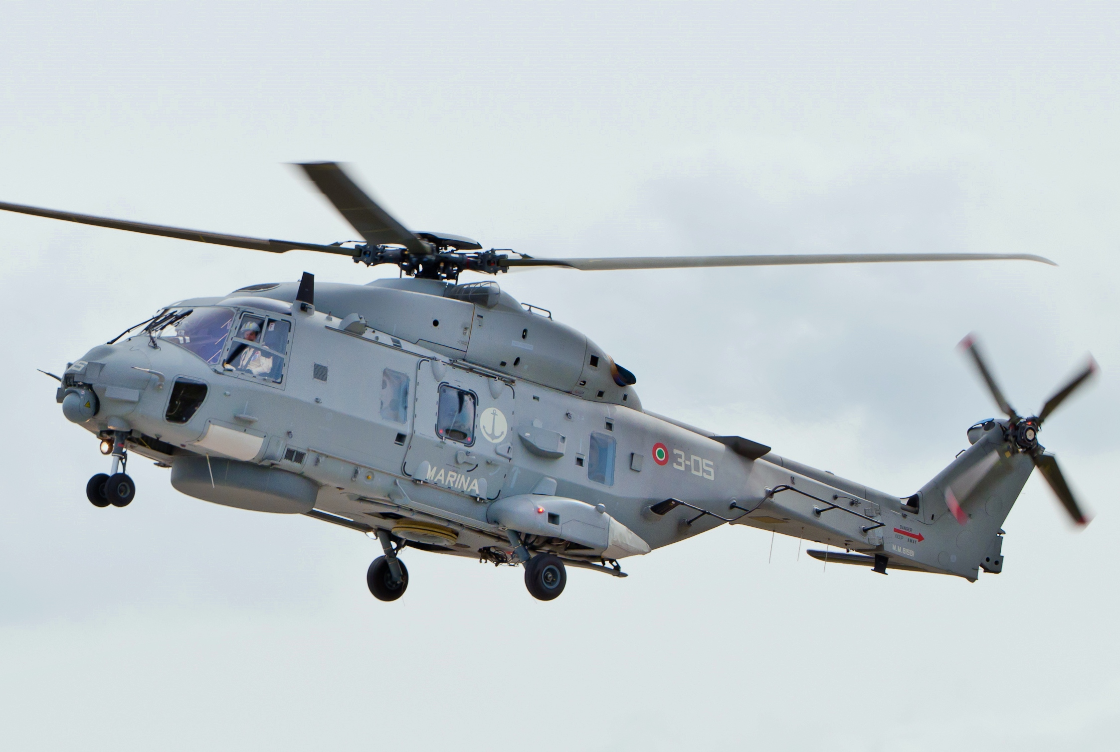 An Italian Navy NH-90 NFH